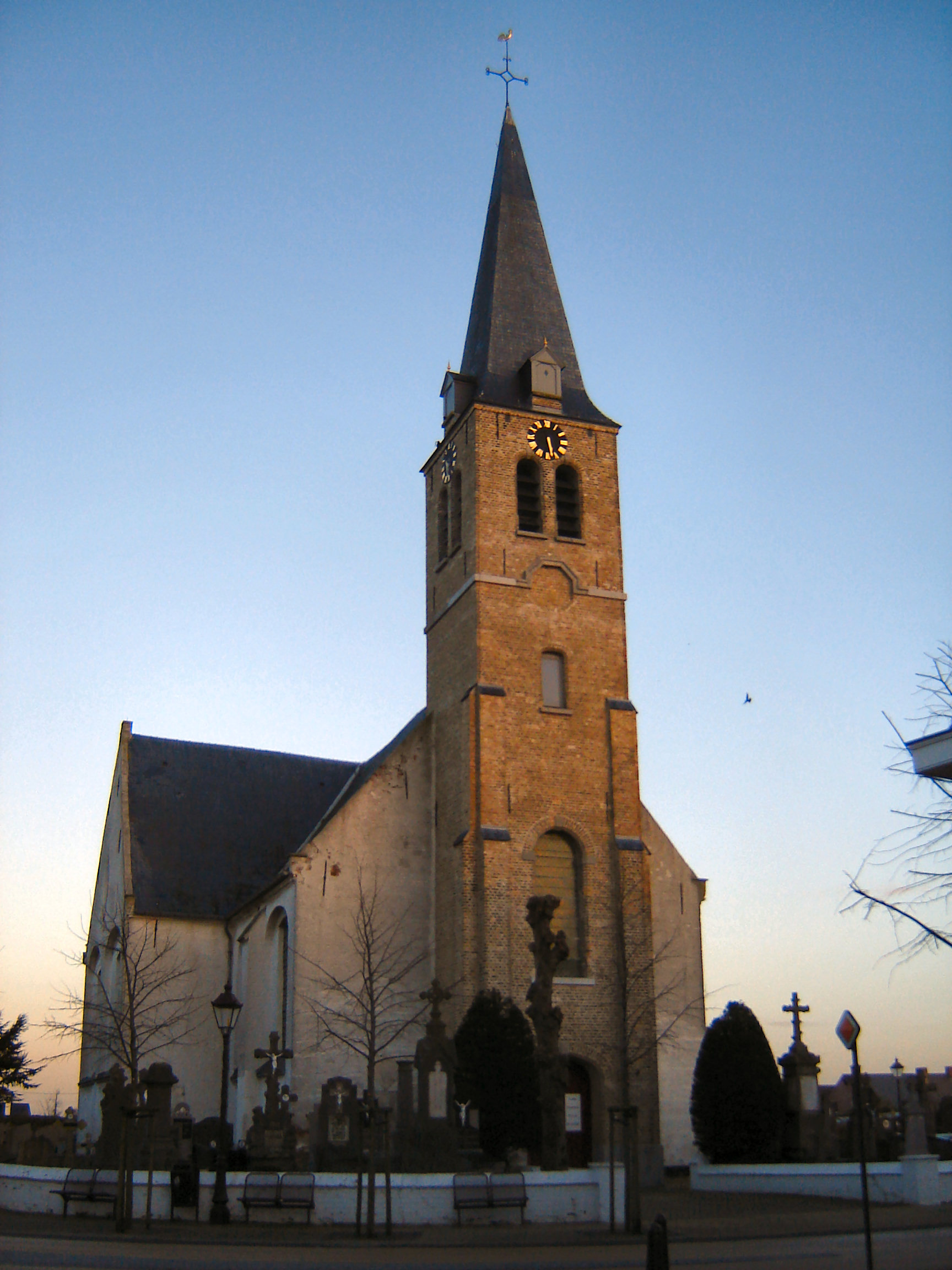 Church of Our Lady in Zevekote in Gistel, West Flanders, Belgium